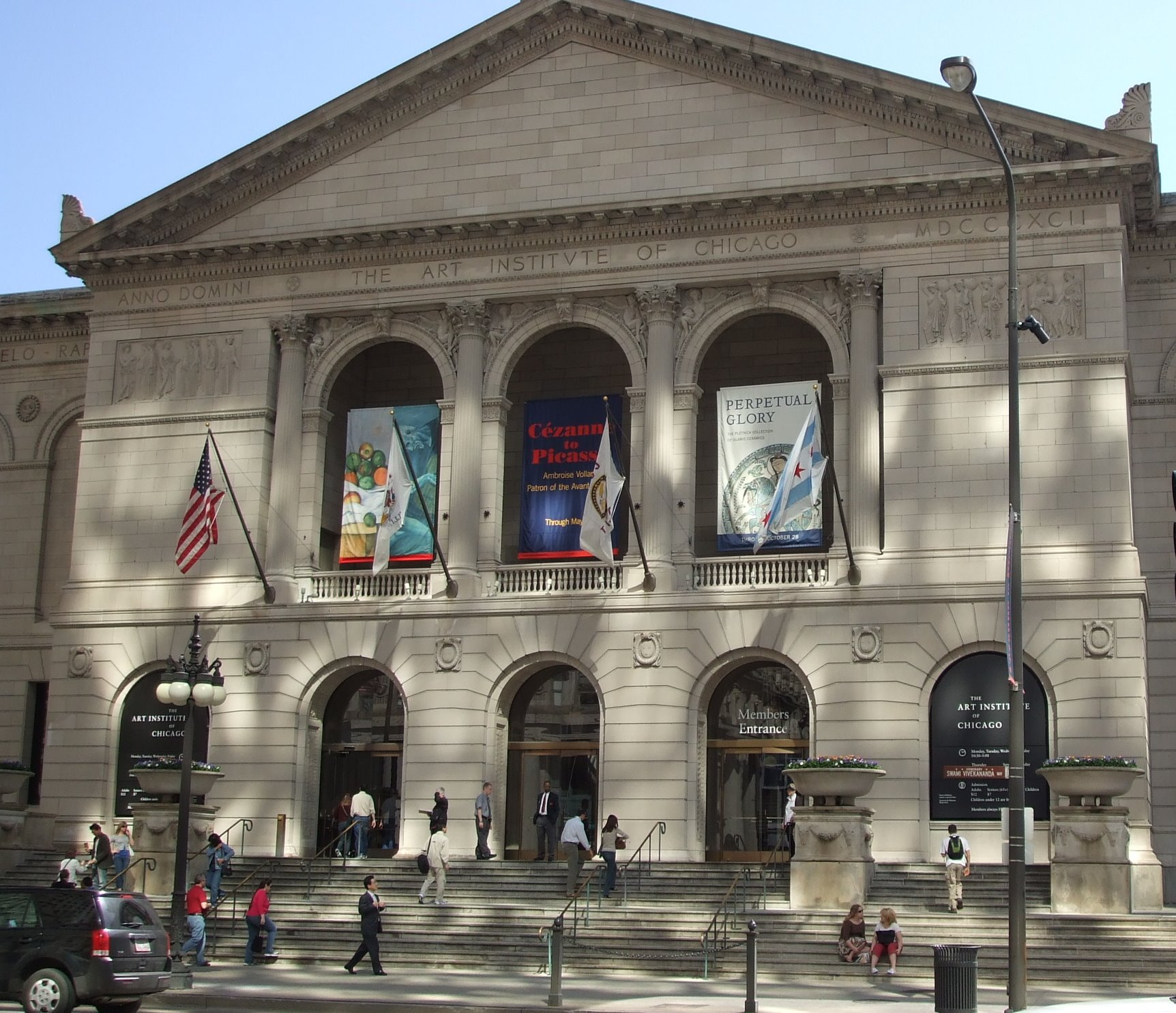 Art Institute of Chicago main entrance. Photo taken by User:Pinotgris on April 29, 2007.